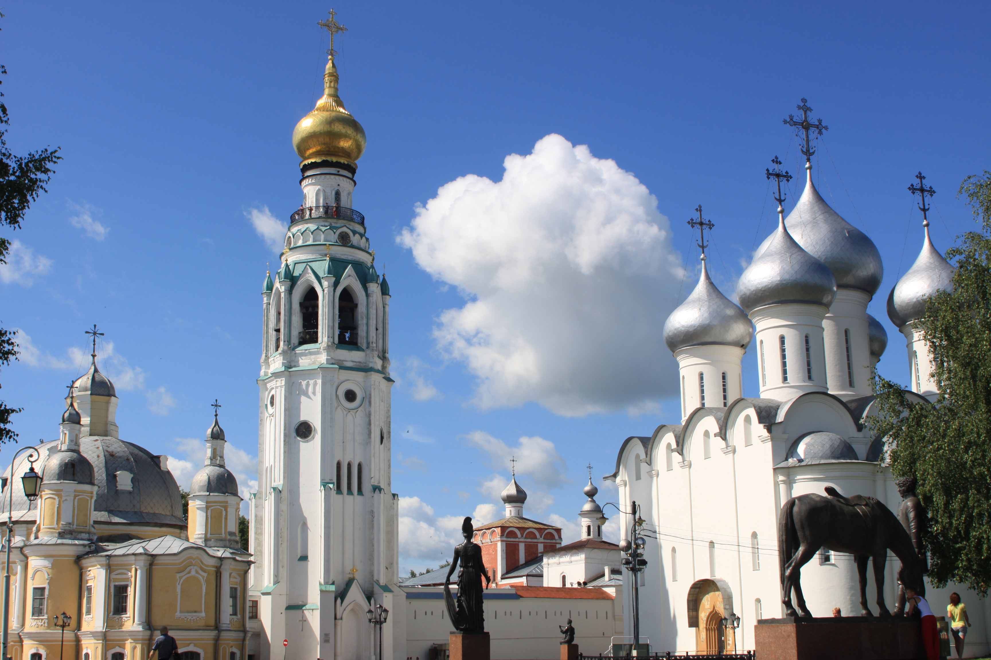 Kremlyovskaya (Kremlin), former Sobornaya (Cathedral) Square in Vologda